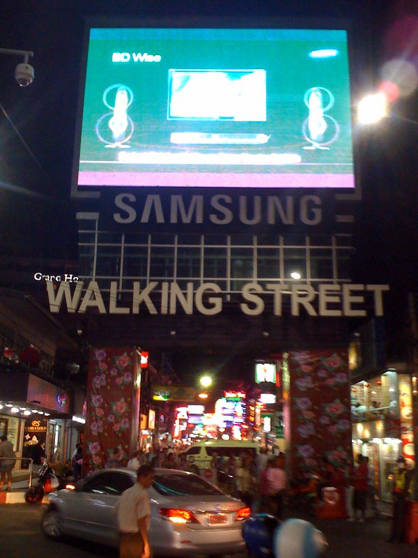 New sign on south entrance to Walking Street